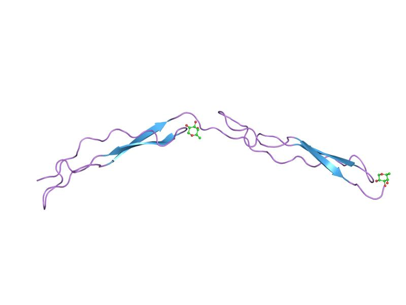 Cartoon representation of the molecular structure of protein registered with 1lsl code.